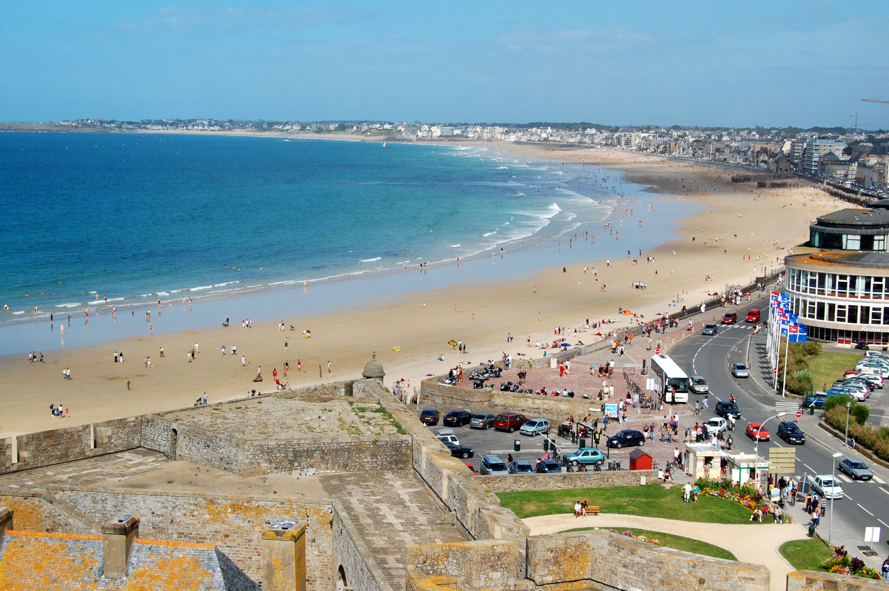 Rochebonne beach , Saint-Malo, Brittany, France